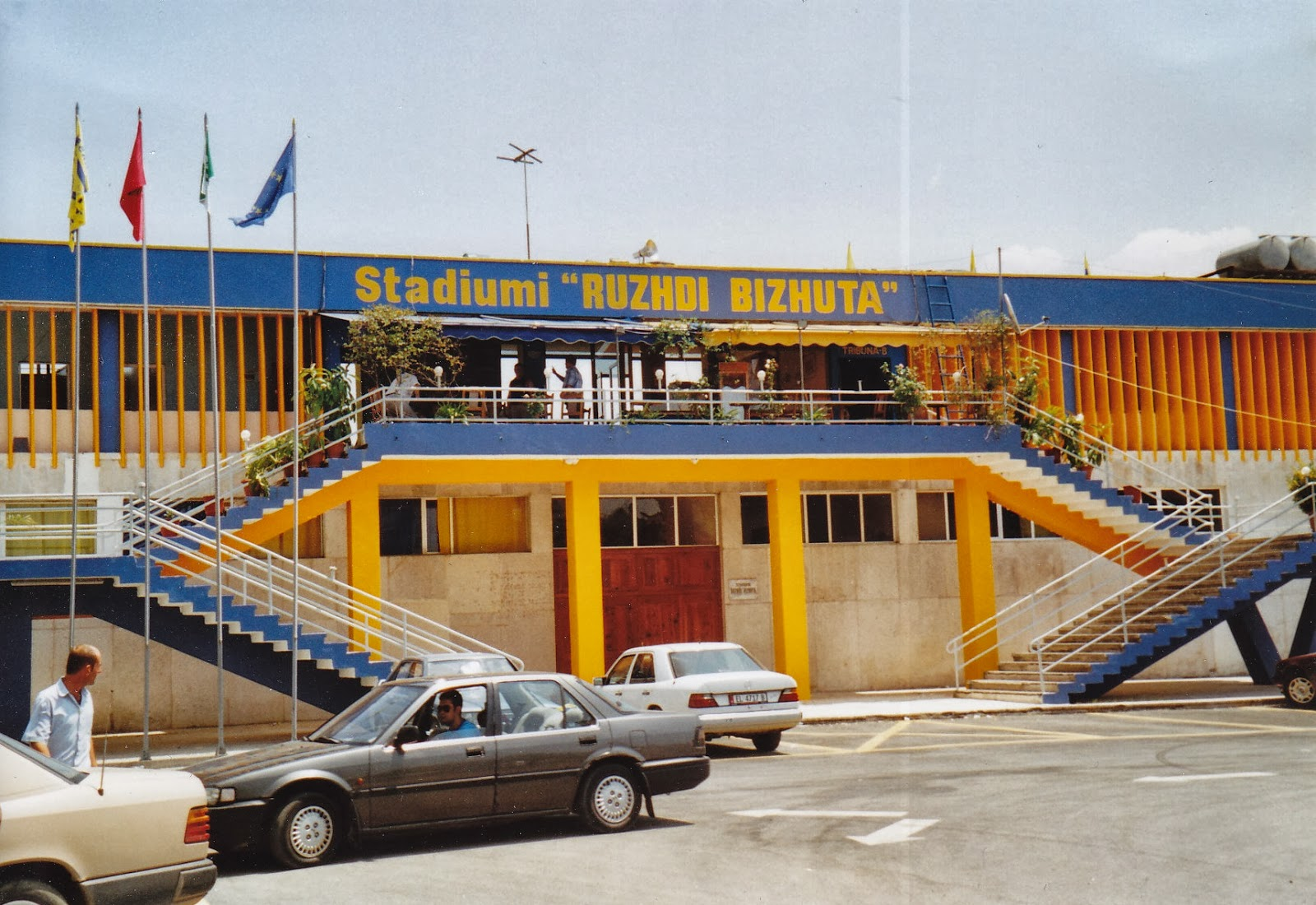 The Ruzhdi Bizhuta Stadium, home of KF Elbasani